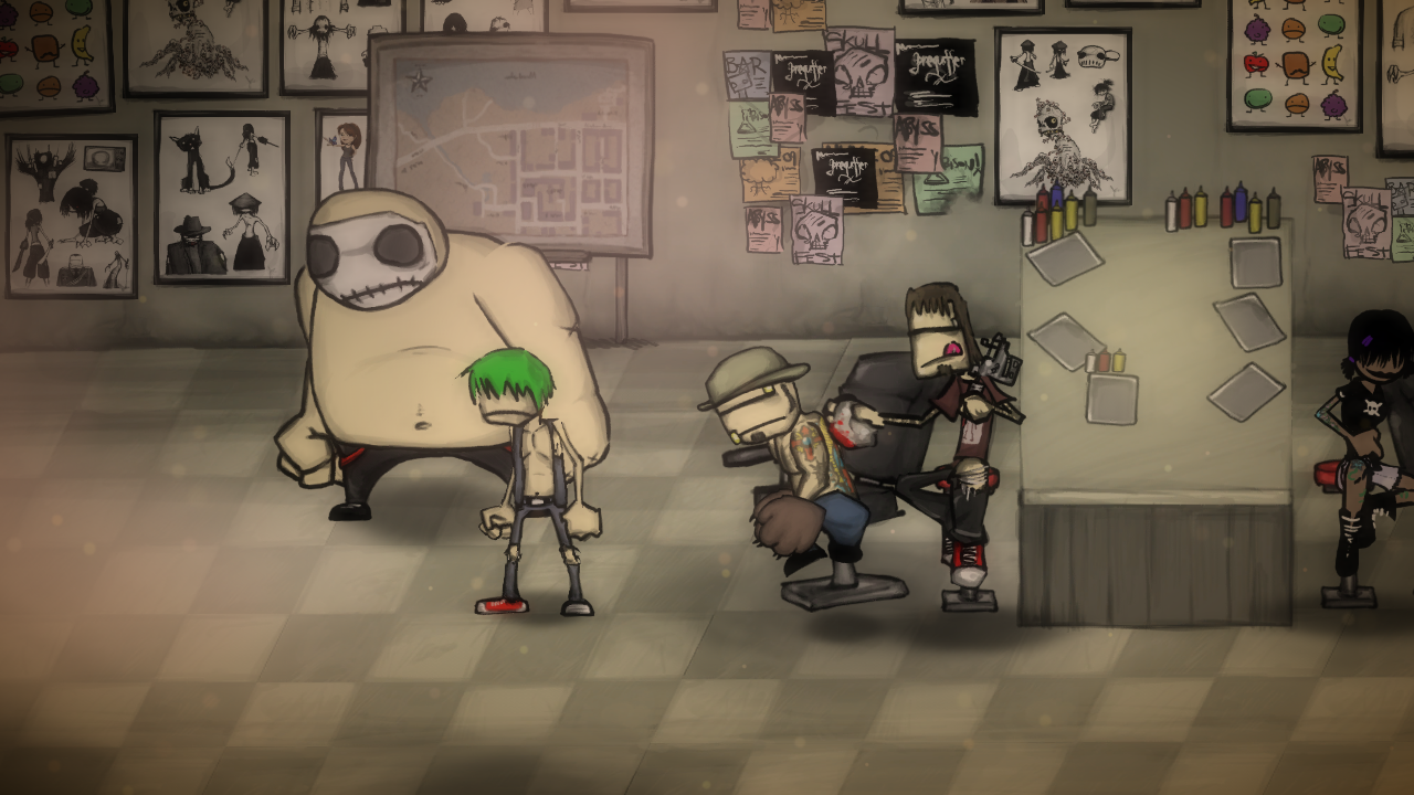 Screenshot from the video game Charlie Murder